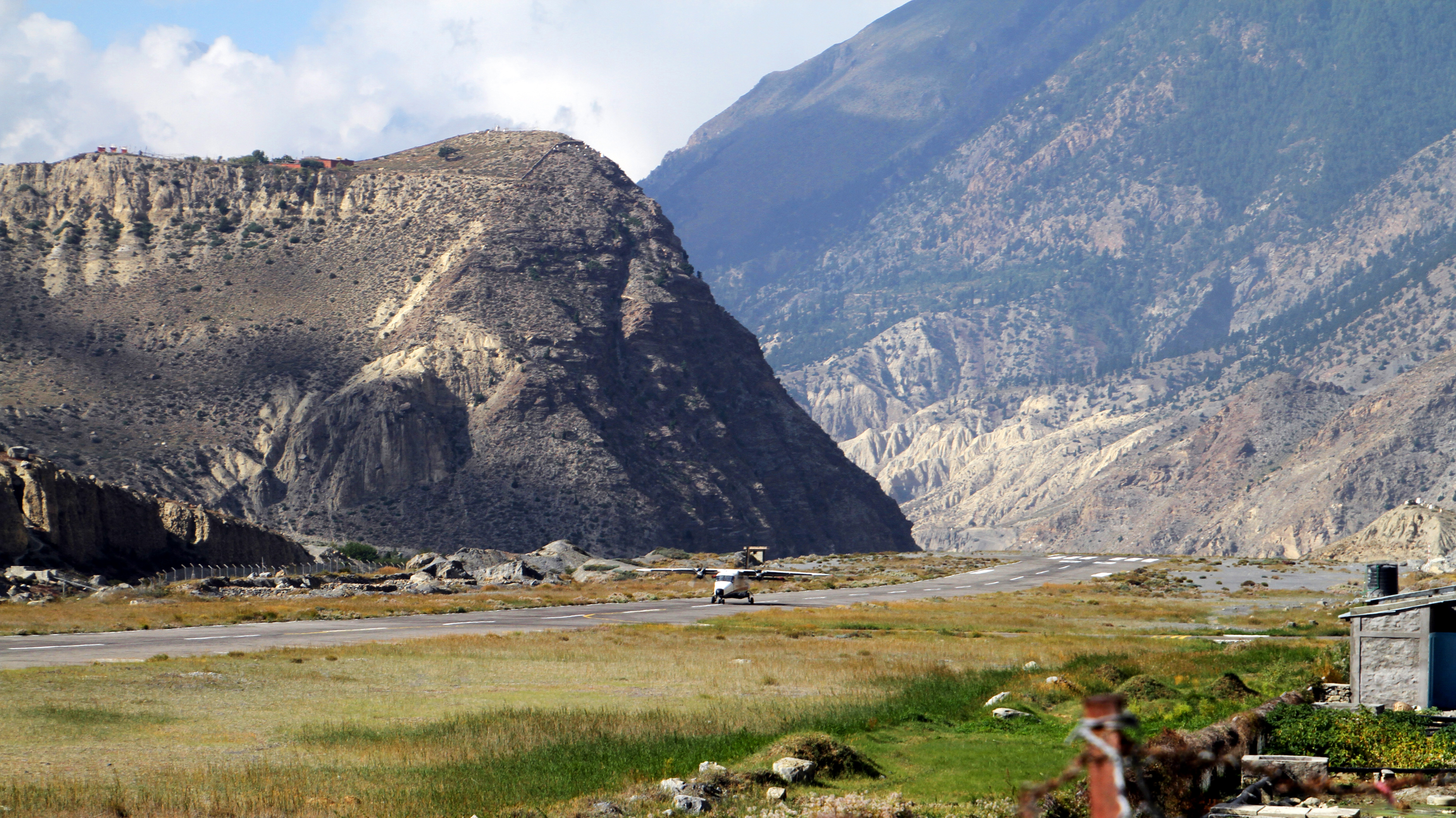 City in Gharpajhong Gaunpalika in Mustang District in Nepal